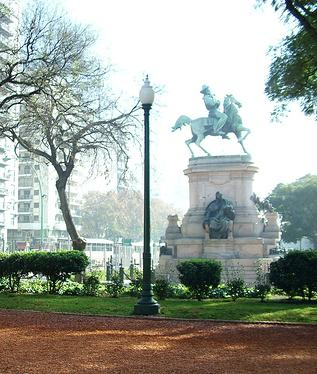 Monument to the Italian national hero Giuseppe Garibaldi, located in Plaza Italia, Buenos Aires.